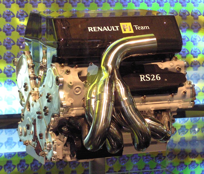 Renault F1: Renault RS26 (2006), V8 engine, 2,398cc, at the Salão Internacional do Automóvel (International Automobile Trade Show).